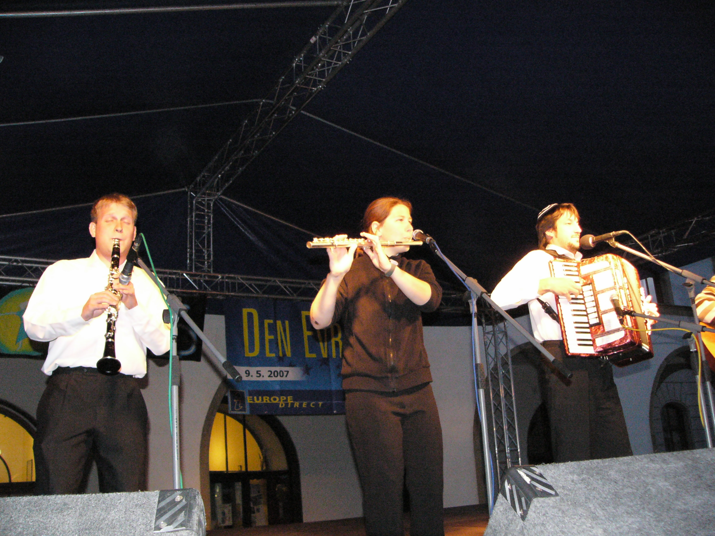 Czech music band Létající rabín in May 2007 in Olomouc (Czech Republic).